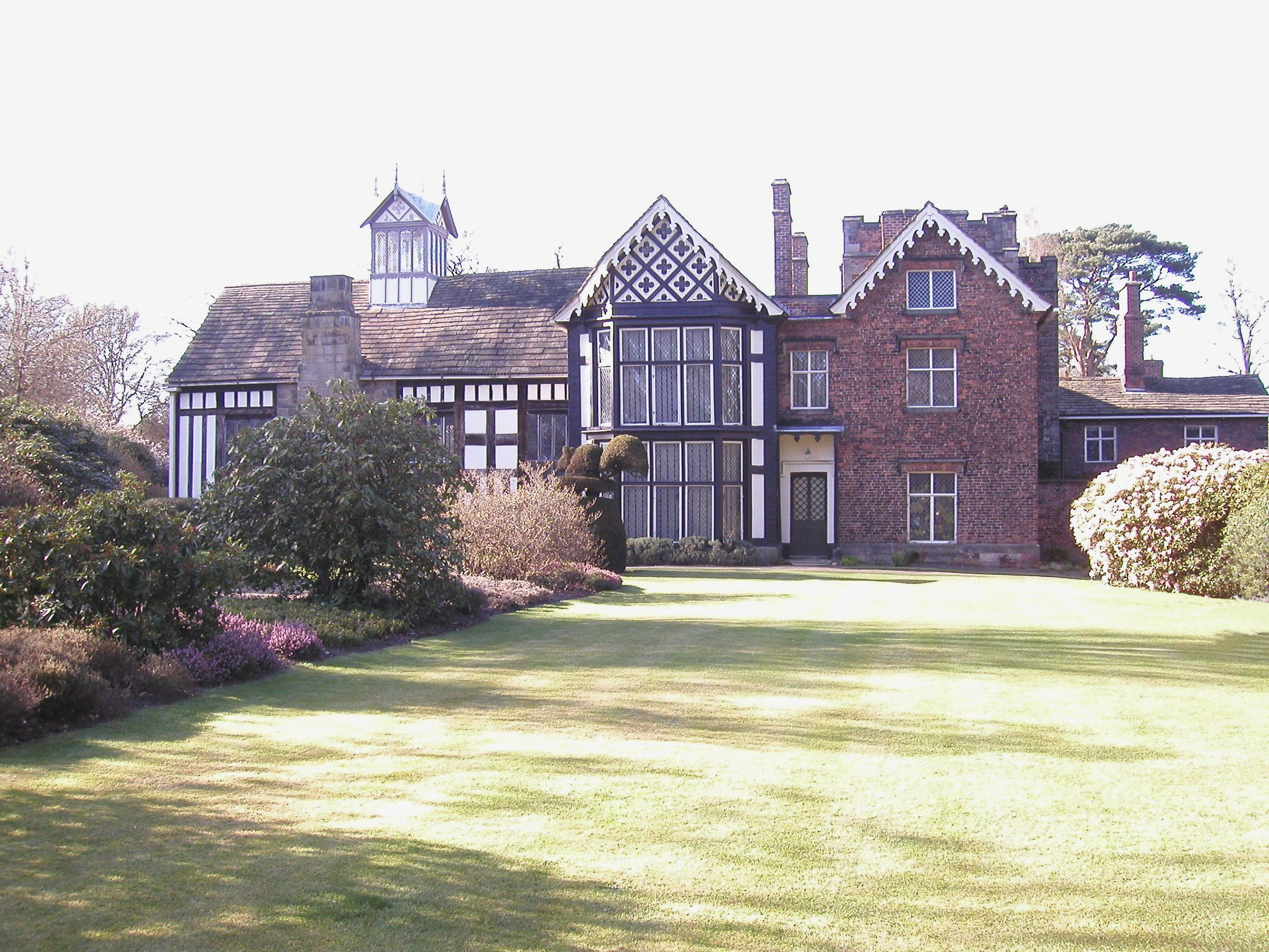 Photograph taken in March 2007 of the rear and gardens of Rufford Old Hall.